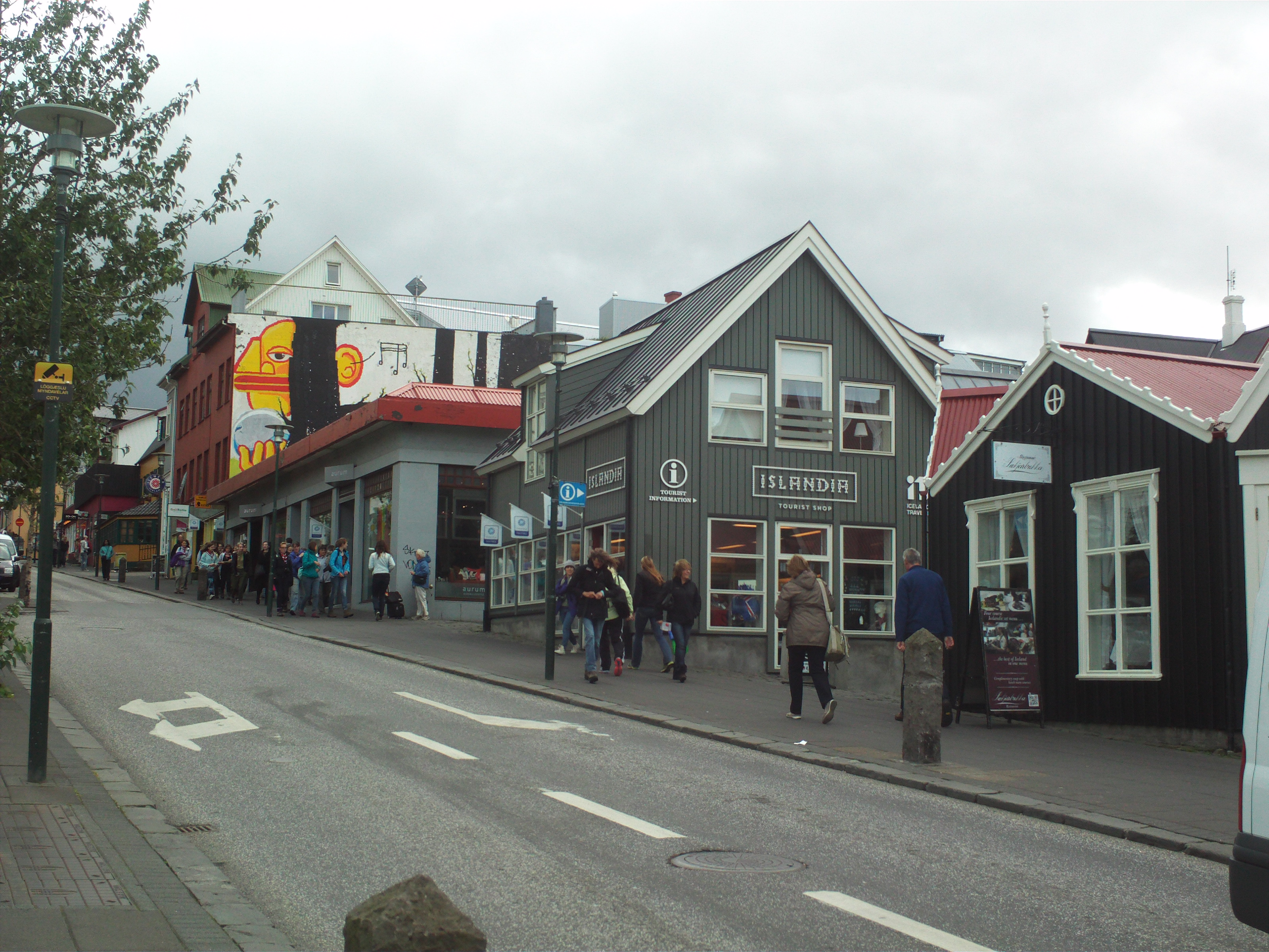 View from downtown towards east.